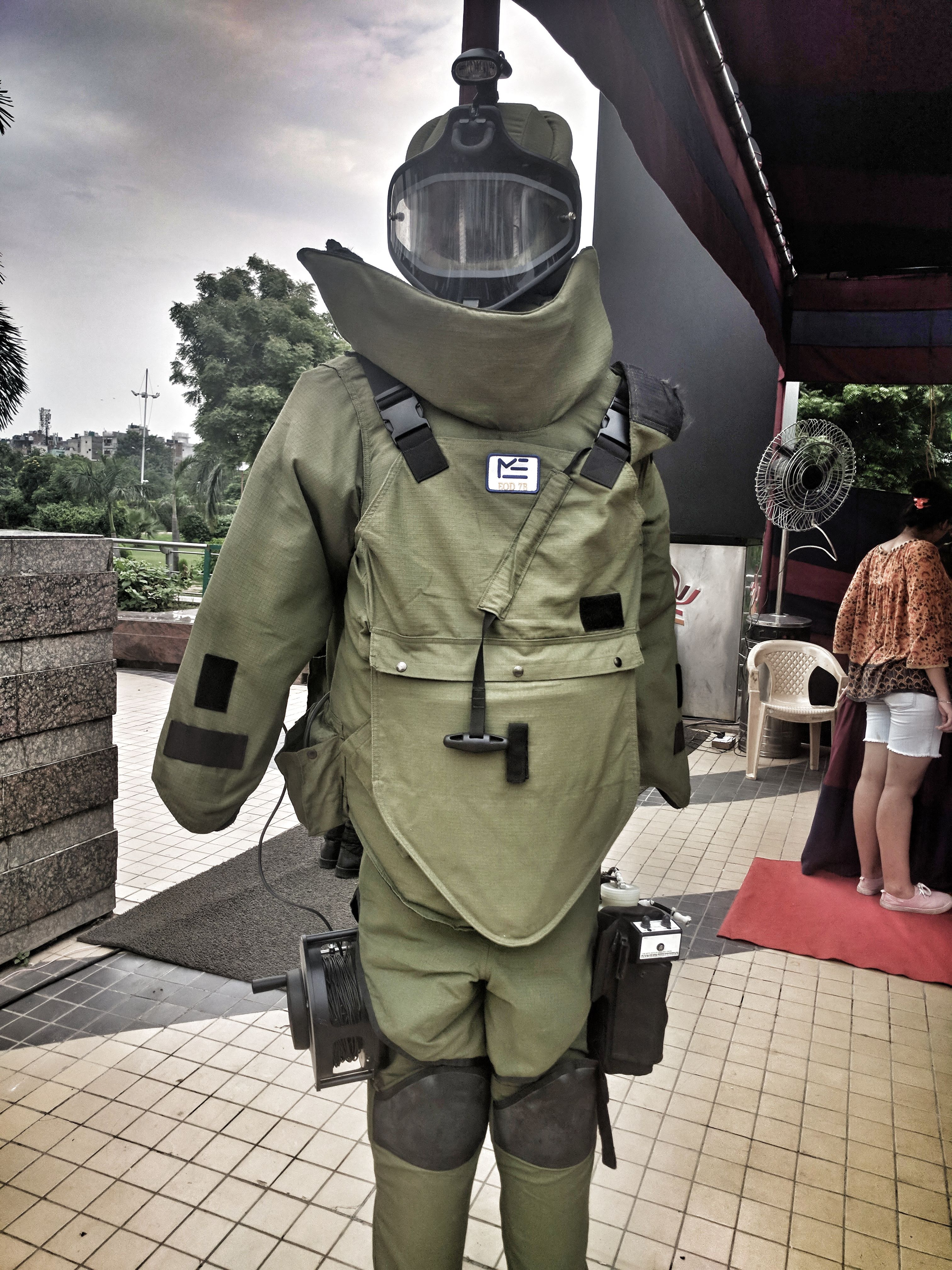 At the Equipment Display of the Indian Army, 2018, Saket, Gurgaon.